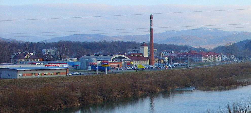 Tesco in Żywiec (Poland)